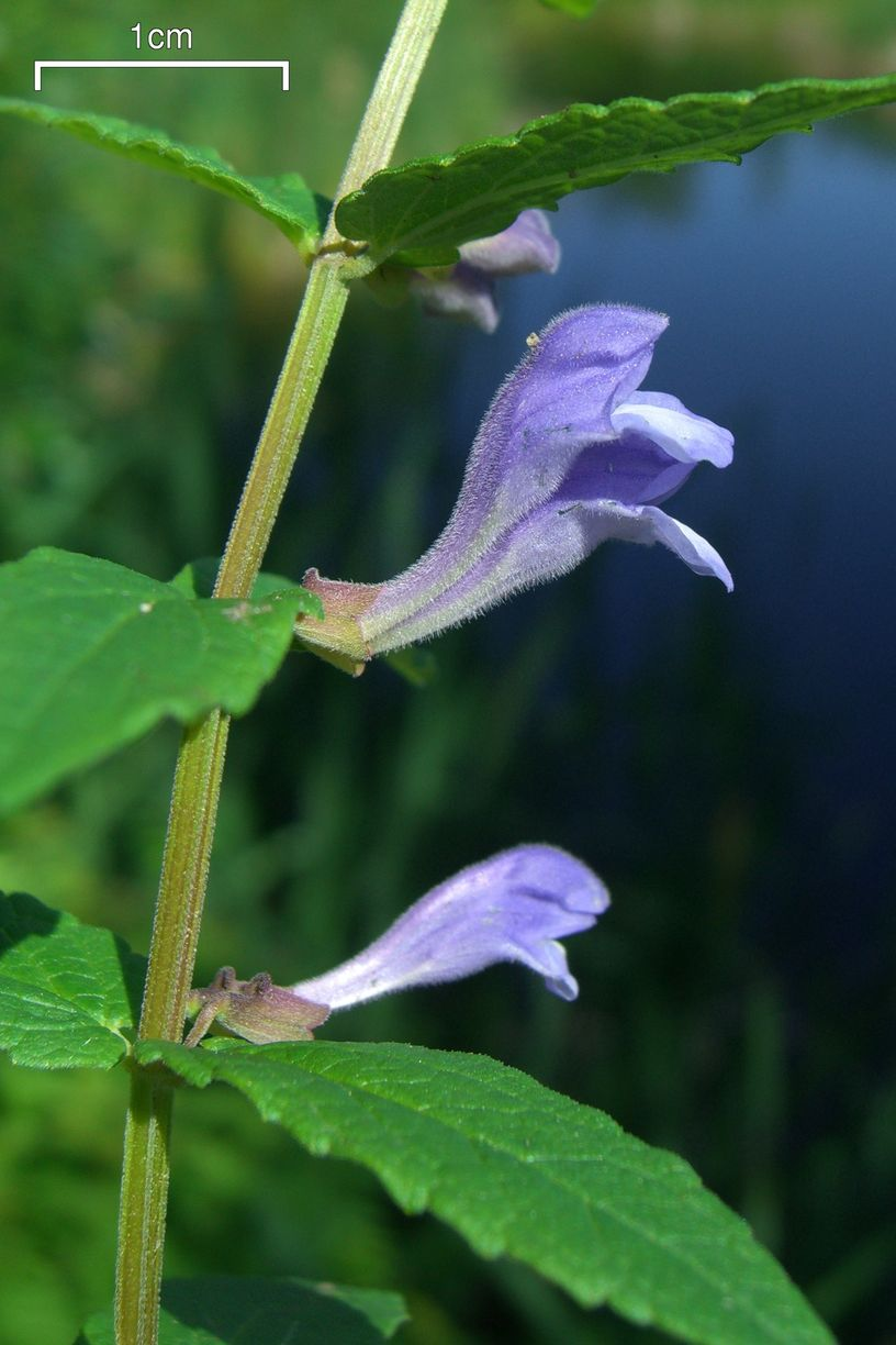 Scutellaria galericulata L. 20090717.20 Edgewood Blue, Wells Gray Park, BC